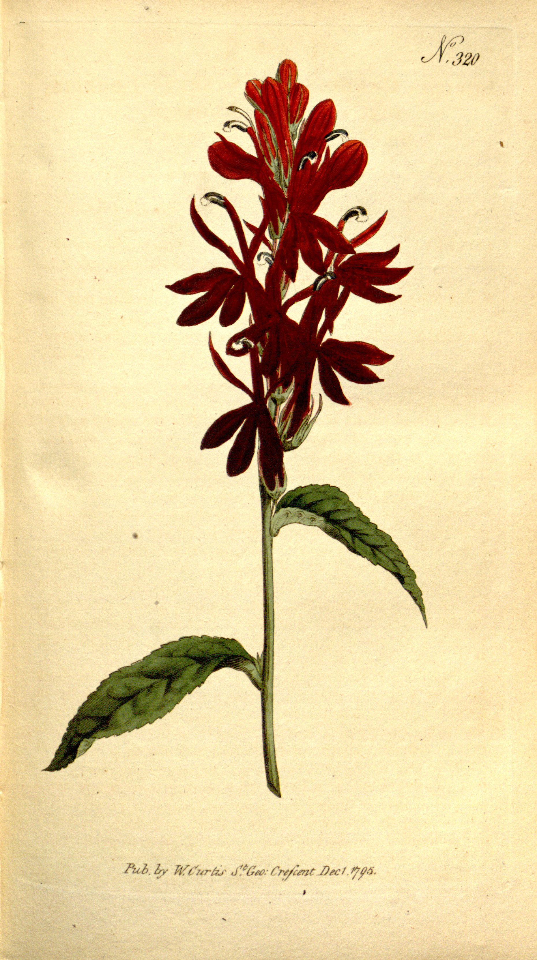 This is a plate from The Botanical Magazine, Volume 9.